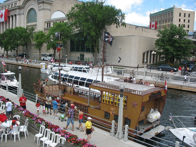 A cruise ship in pirate style on the Rideau Canal, Ottawa. Canada Day, July 1, 2011.